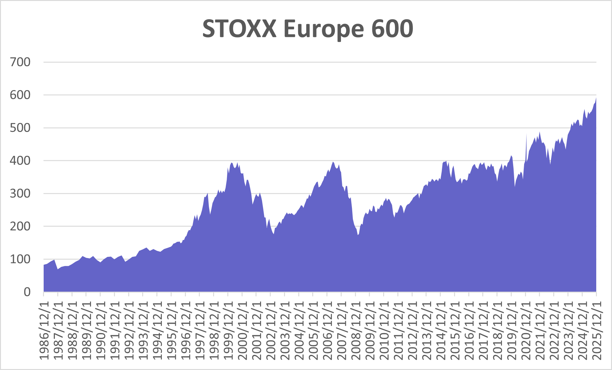 STOXX Europe 600 from December 1986 to March 2020 (daily closings).